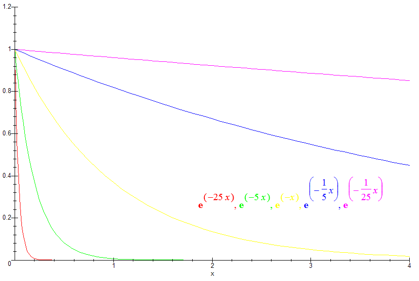 This is a plot of exponential decay for several different decay constants